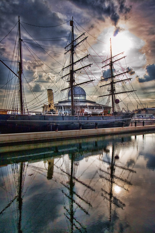 RRS Discovery as seen docked at Dundee.